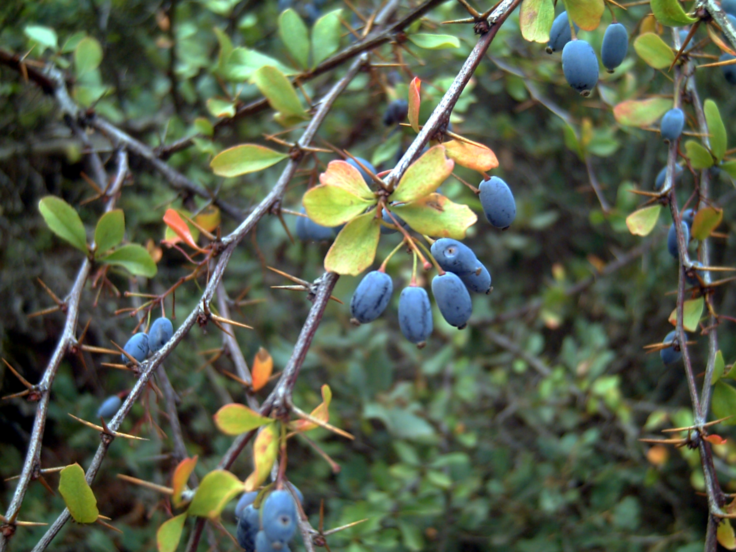 Berberis hispanica in Arboretum La Alfaguara, Granada, Spain.